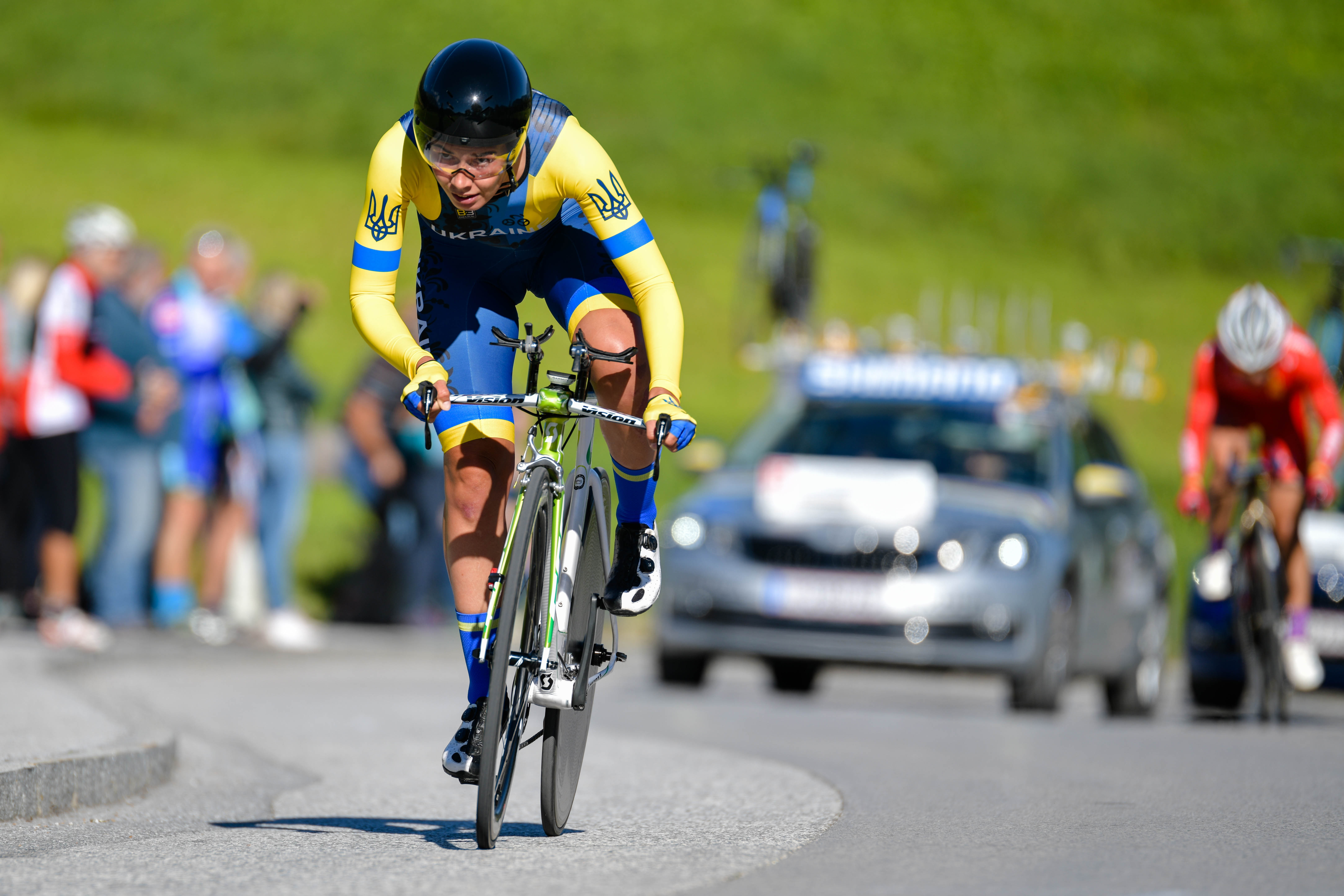 2018 UCI Road World Championships Innsbruck/Tirol Women Elite Individual Time Trial. Picture shows: Valeriya Kononenko of Ukraine